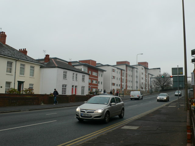 North Road, Cardiff Looking up North Road (the A470) near Blackweir. The buildings top left are university residences.